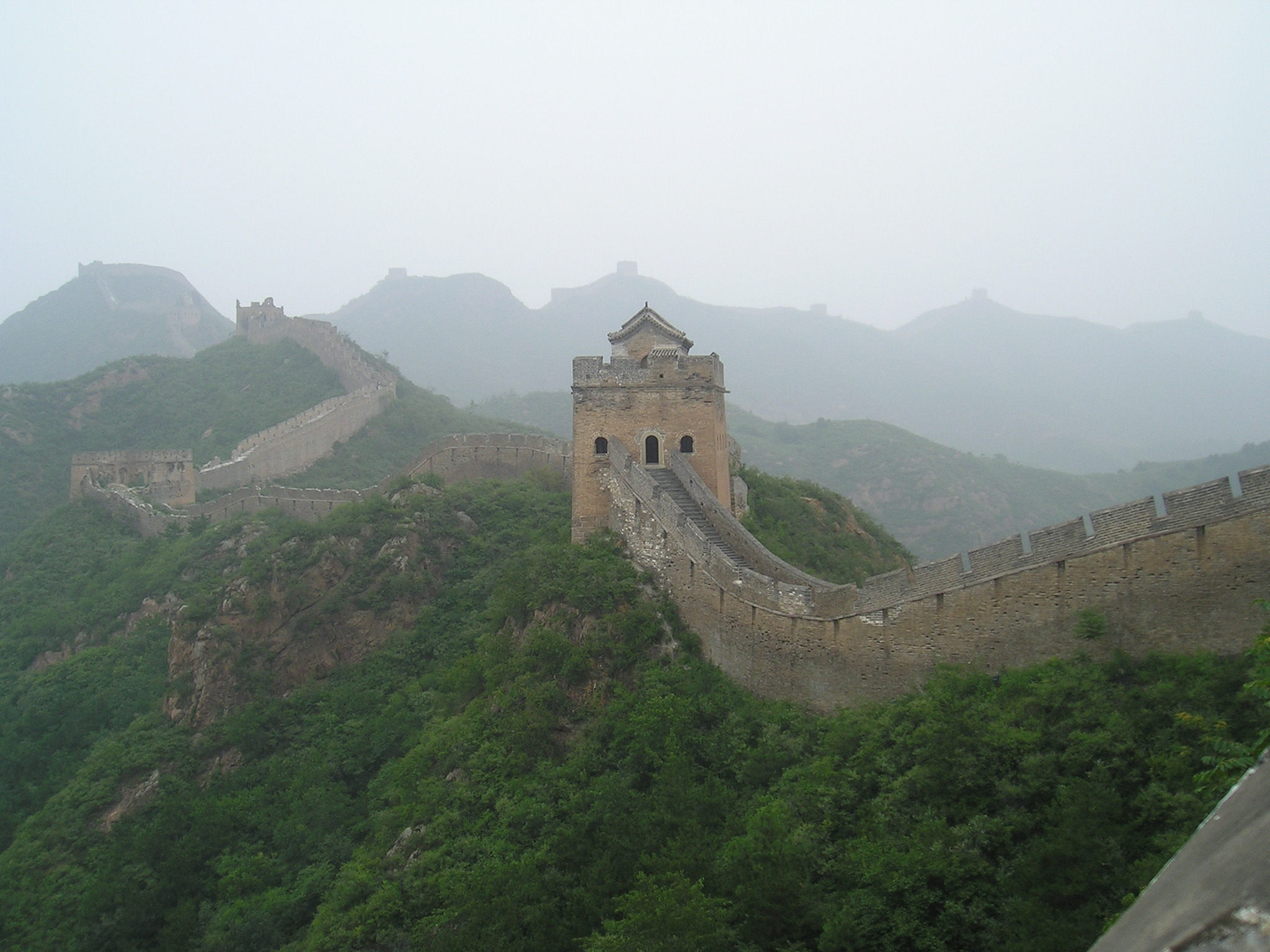 Chinese wall, near Beijing